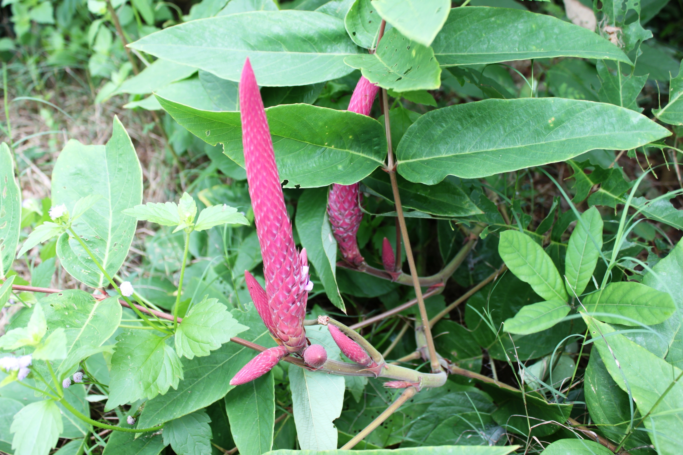 Uraria crinita before flowering